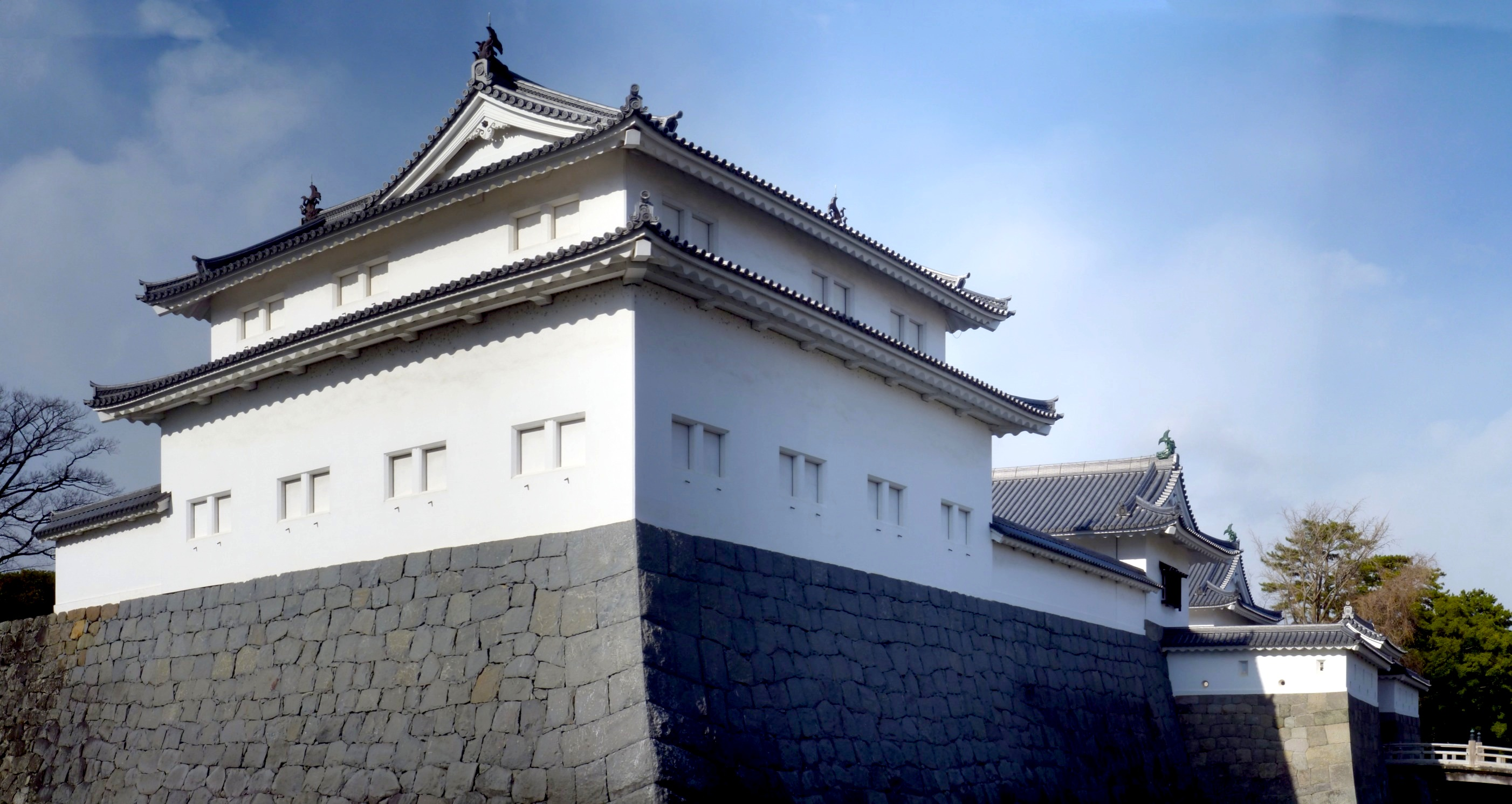 Sunpu Castle (駿府城 Sunpu-jō) was a Japanese castle in Shizuoka City, Shizuoka Prefecture in Japan. This is a picture of the reconstructed Tatsumi yagura.